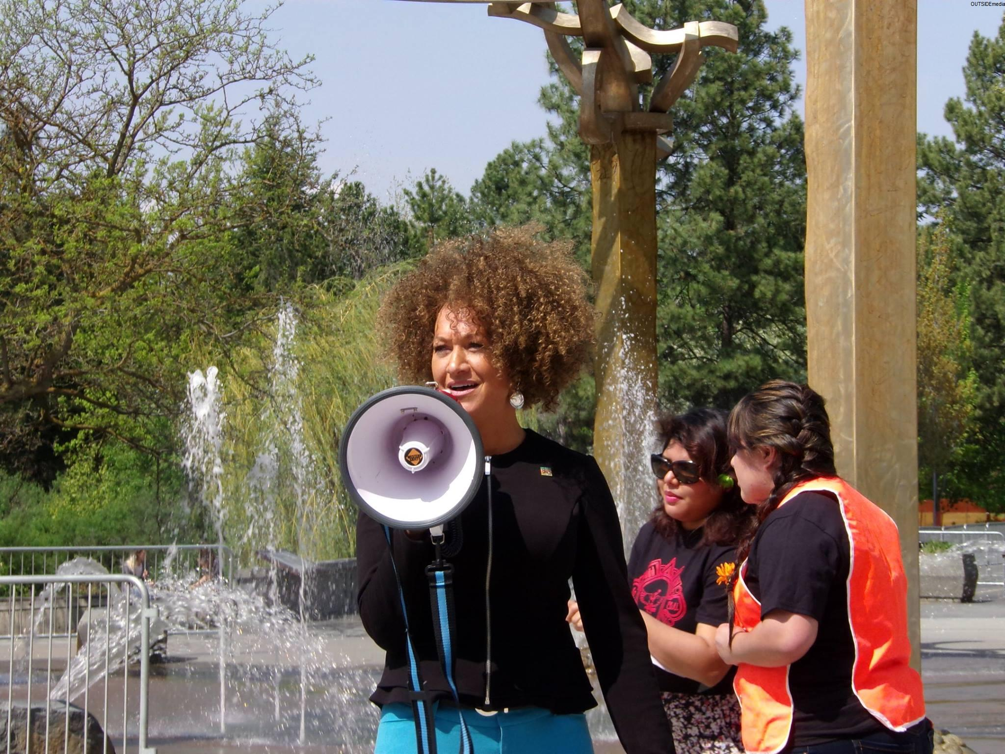 Then NAACP President Rachel Dolezal speaking at a rally in downtown Spokane, Washington.